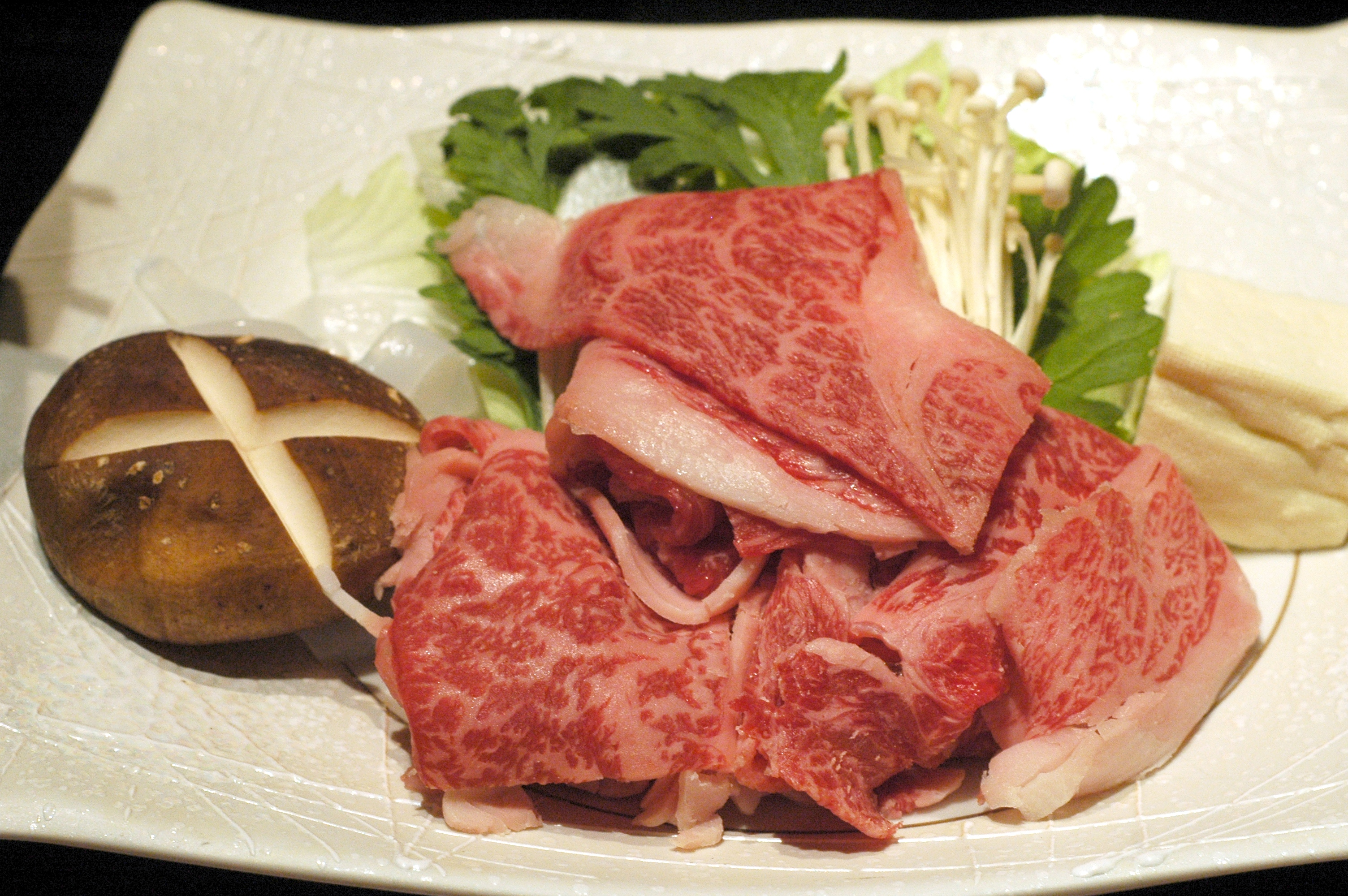 Yonezawa beef at Kajikaso, Onogawa Onsen, ready to be cooked sukiyaki-style, Yonezawa.